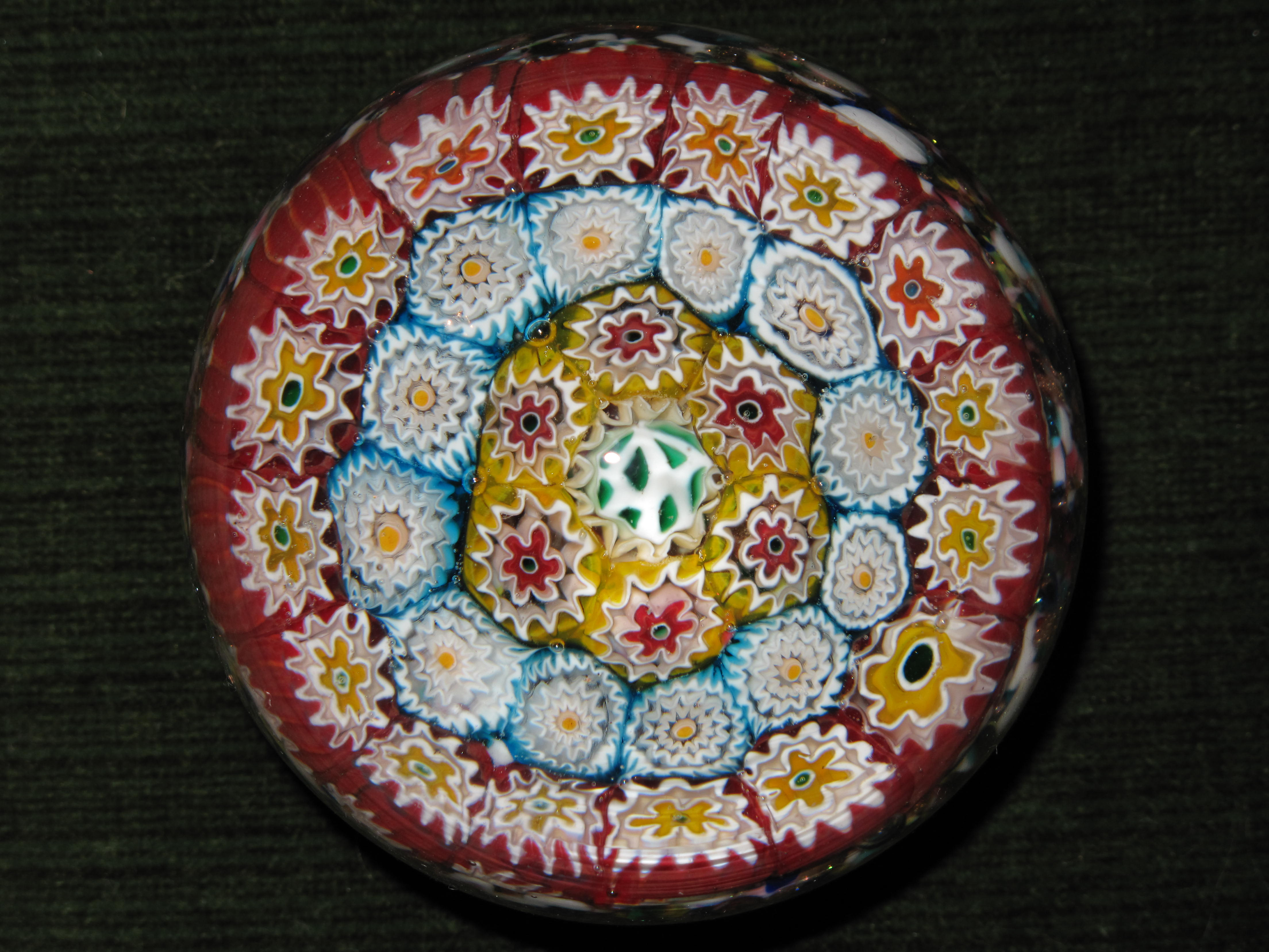 Decorative glass paperweight "millefiori"